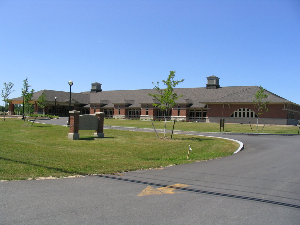 photo of Town of Clay Town Hall, taken by me on July 2, 2004